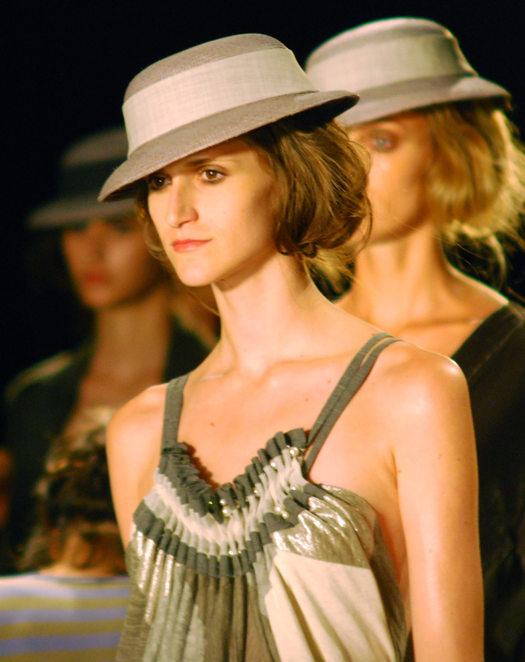 Daiane Conterato modeling for Huis Clos, Fall 2008 Sao Paolo Fashion Week